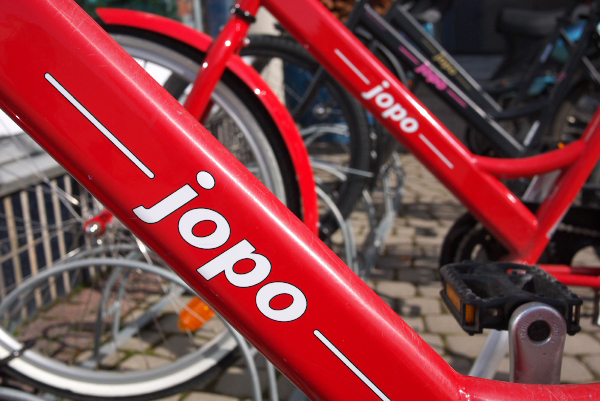 Jopo Lineup